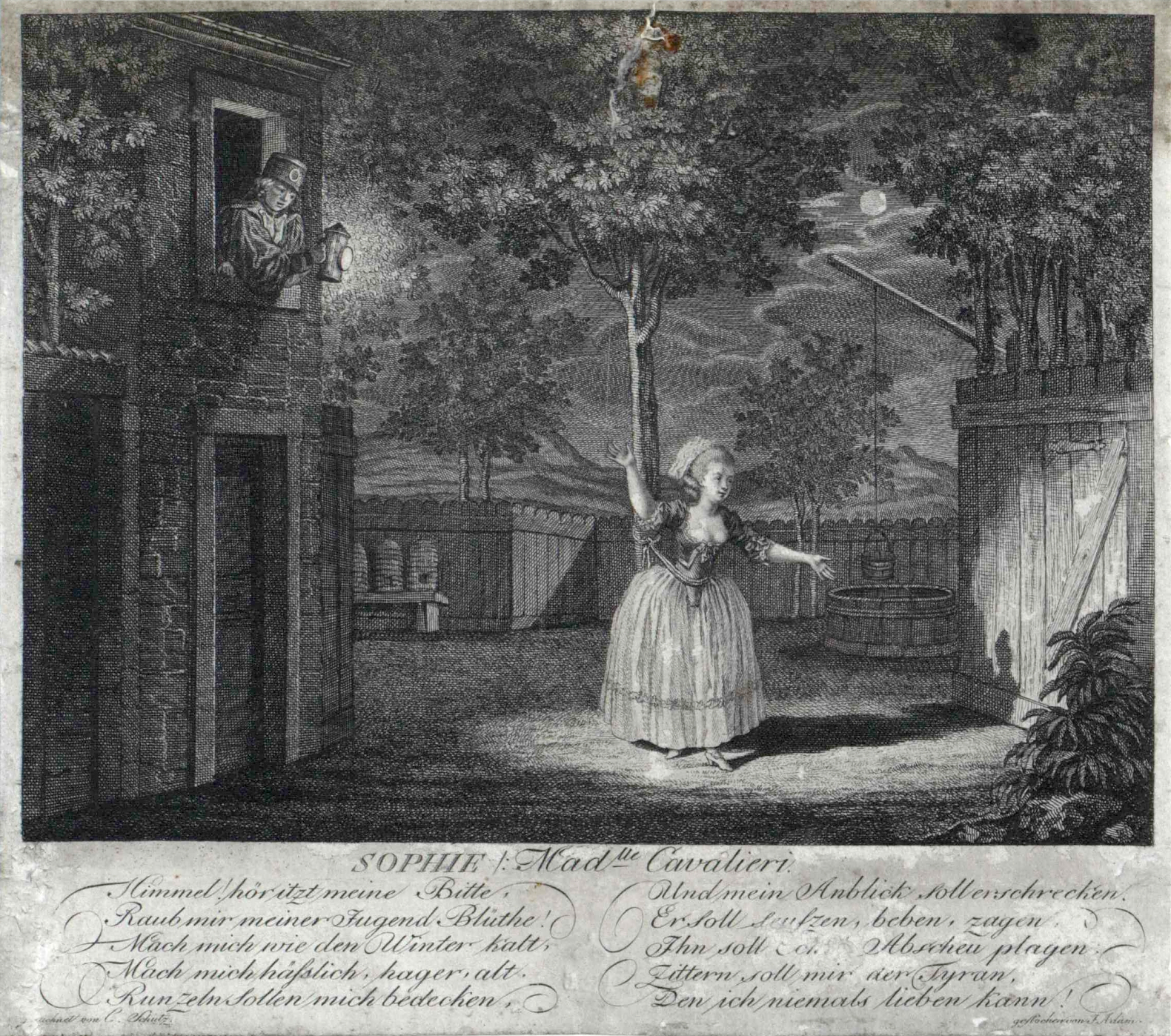 Scene of „Die Bergknappen“ composed by Ignaz Umlauf, with Caterina Cavalieri as Sophie. Information on this engraving in „Litteratur- und Theater-Zeitung“, Berlin, 24 April 1779, page 266.